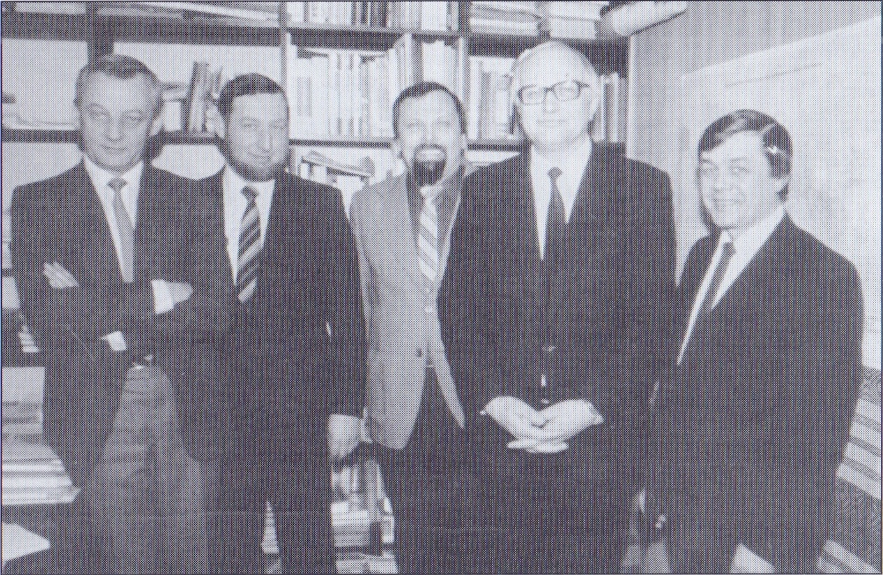 members of the editorial staff of the journal „Chrześcijanina” 1988